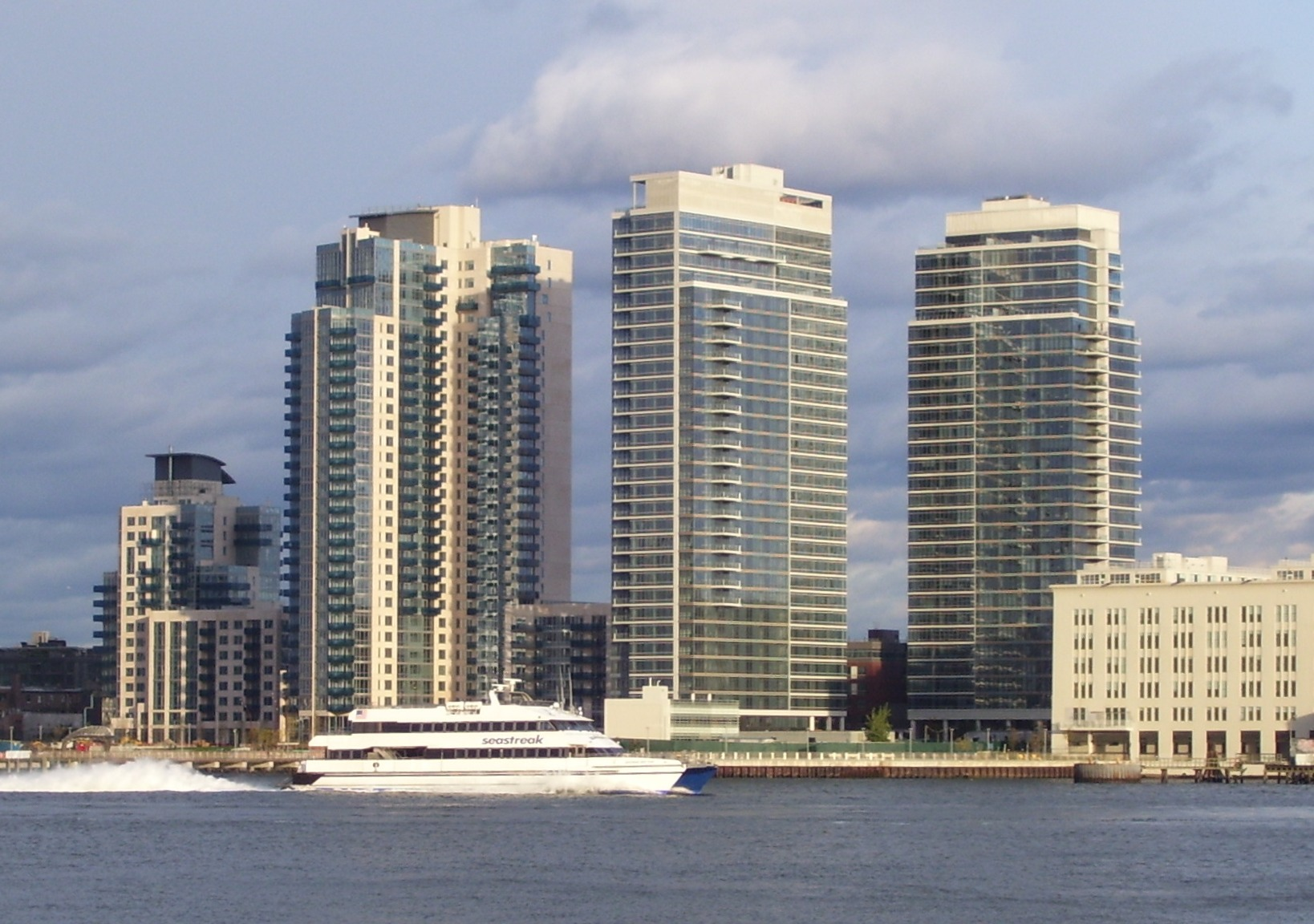 The Edge development at 135 Kent Avenue in Williamsburg, Brooklyn, New York City, as seen across the East River from the East River promenade of East River Park in Manhattan. Passing in front is the Seastreak ferry, which services Sandy Hook and the Atlantic Highlands in New Jersey.